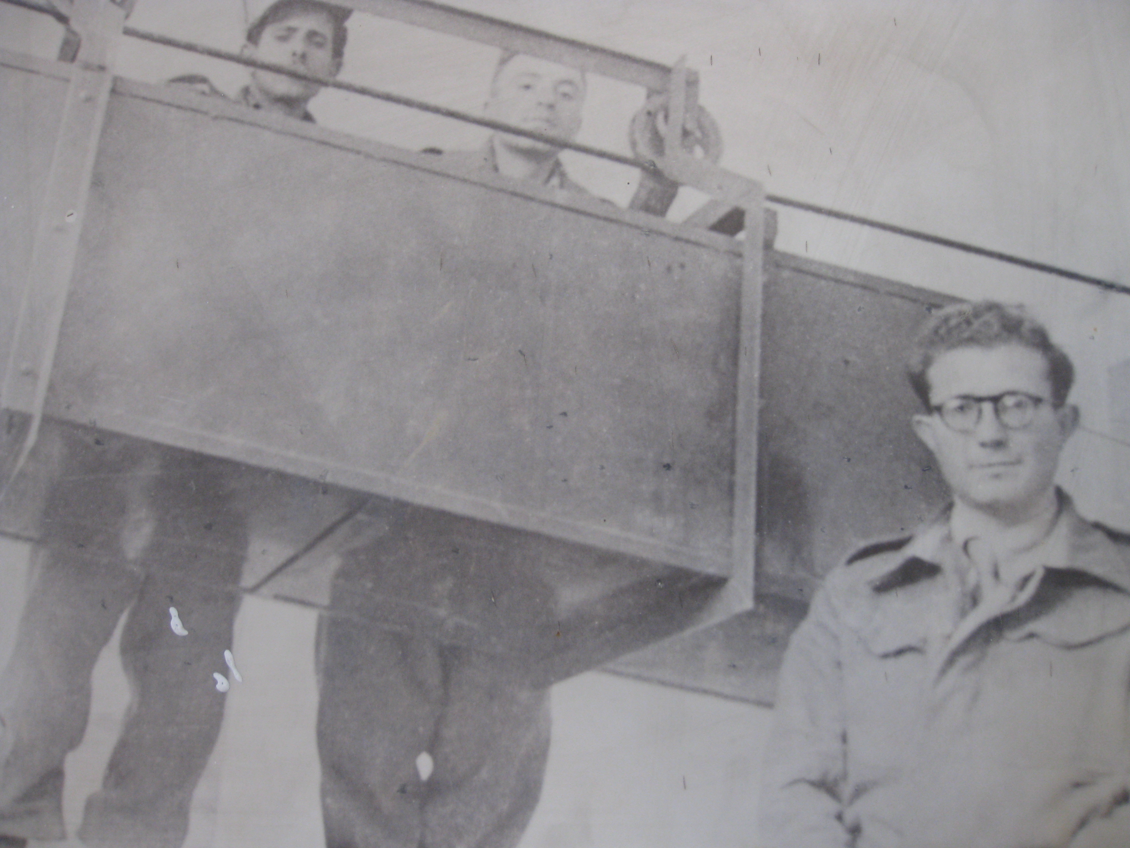 Urial Hefez - the builder of the Mount Zion Cable Car